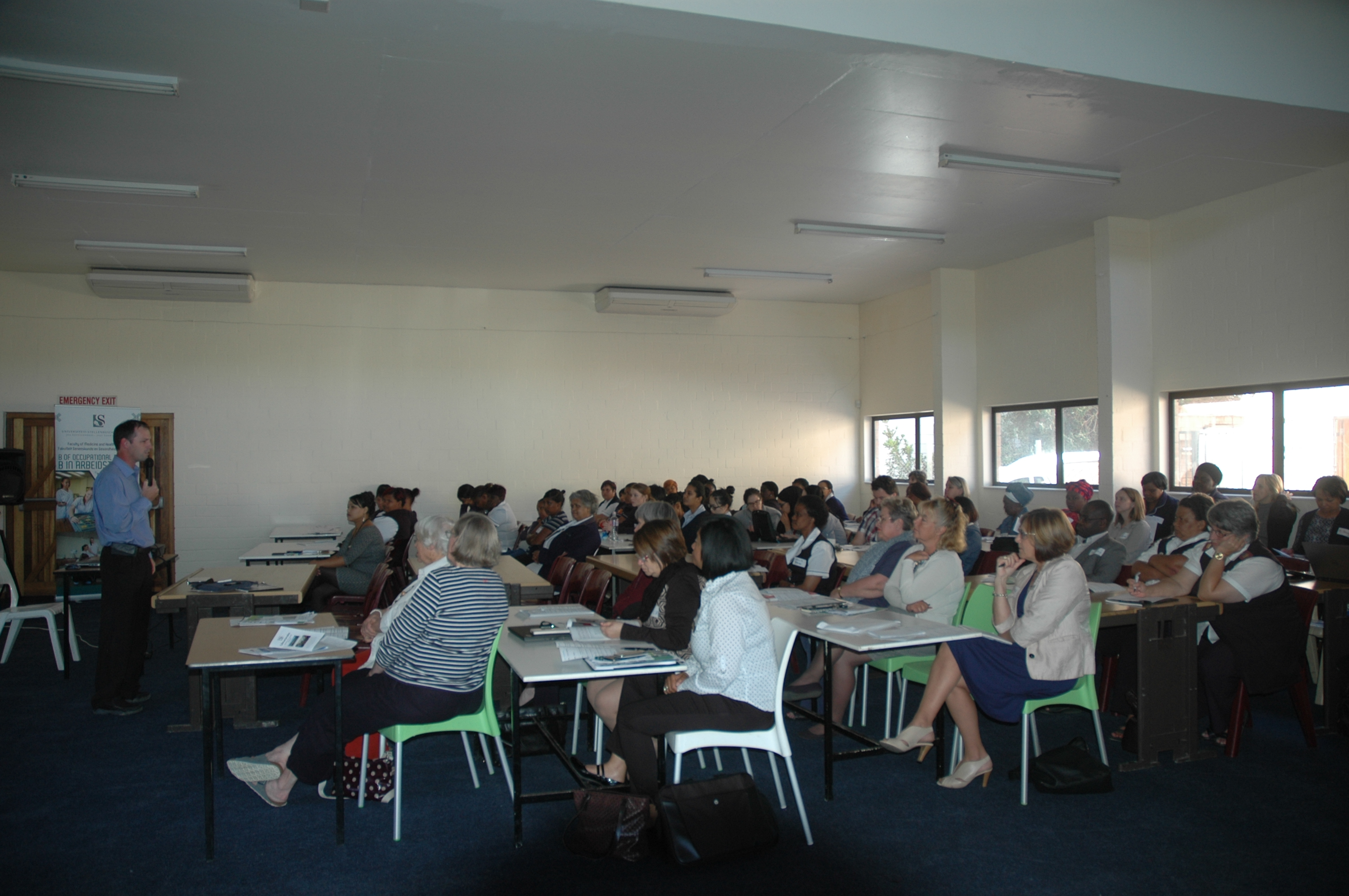 A great turn out for the first Hermanus CPF.